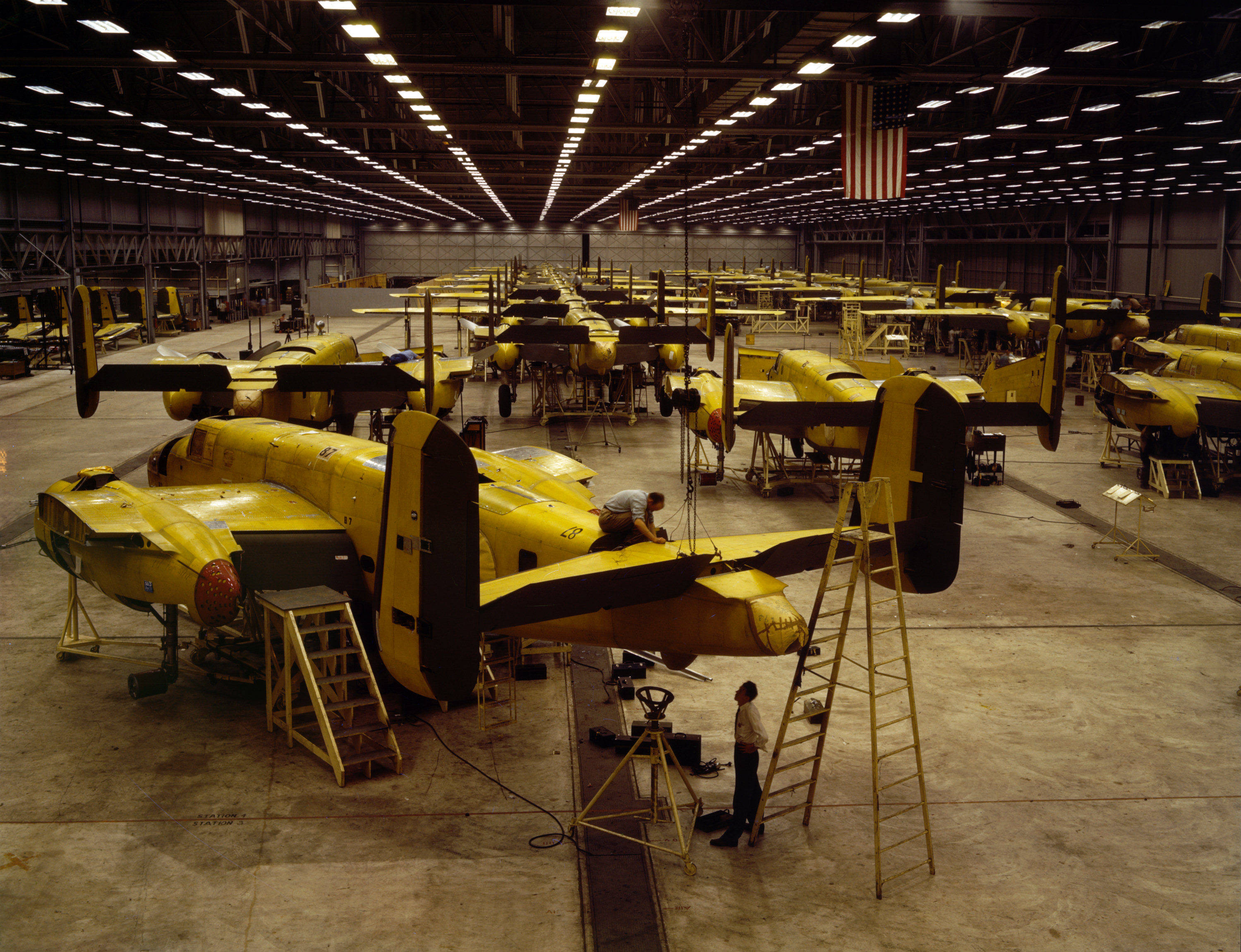 Assembling the North American B-25 Mitchell at Kansas City, Kansas (USA). Reproduction digitized from original 4x5 color transparency.